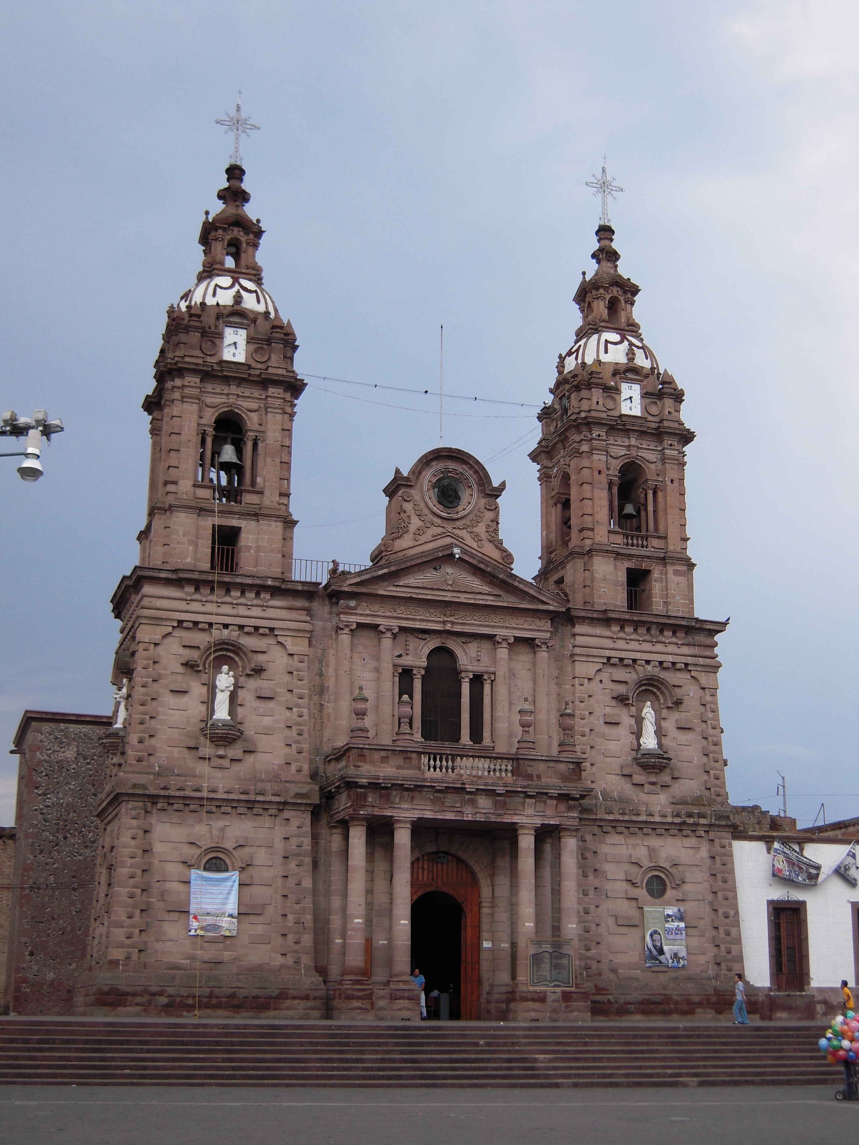 Foto del templo del Señor de la Misericordia, en Ocotlán, Jalisco, México.